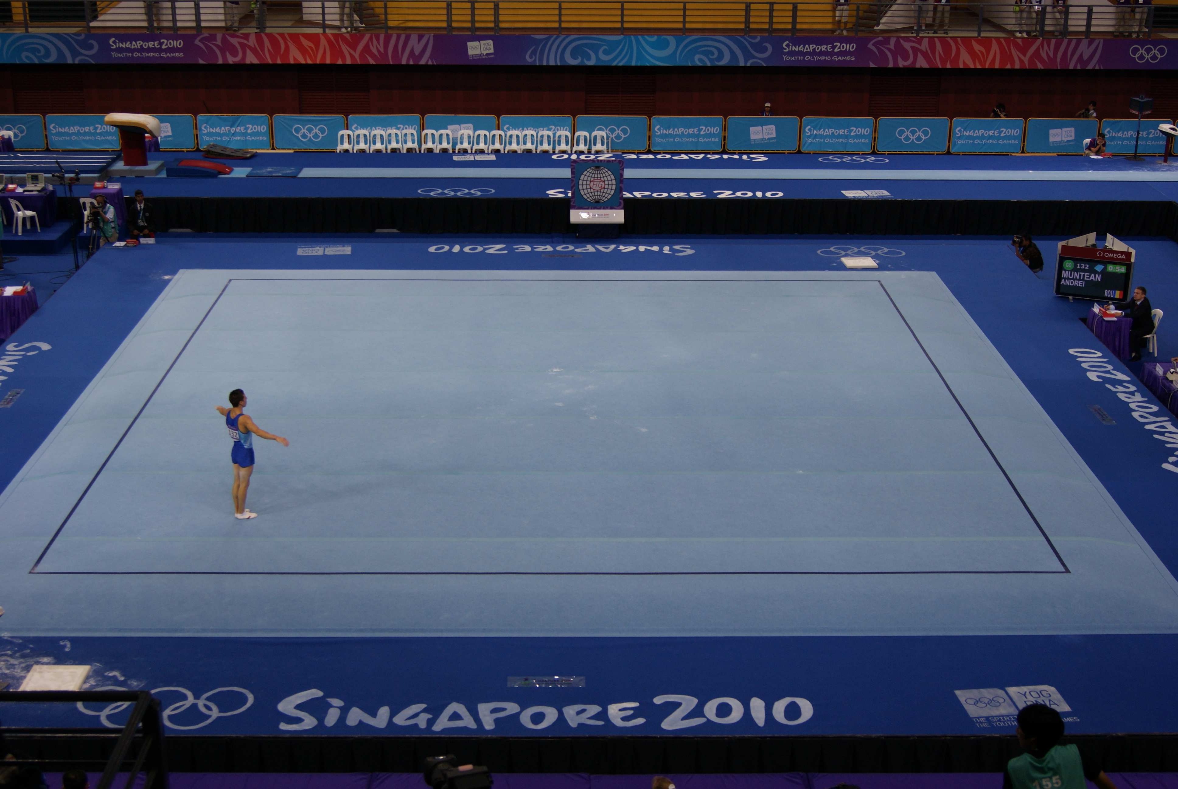 A competitor executing a floor exercise during Men's Qualification – Subdivision 1 of the artistic gymnastics competition at the 2010 Summer Youth Olympics at Bishan Sports Hall, Singapore.